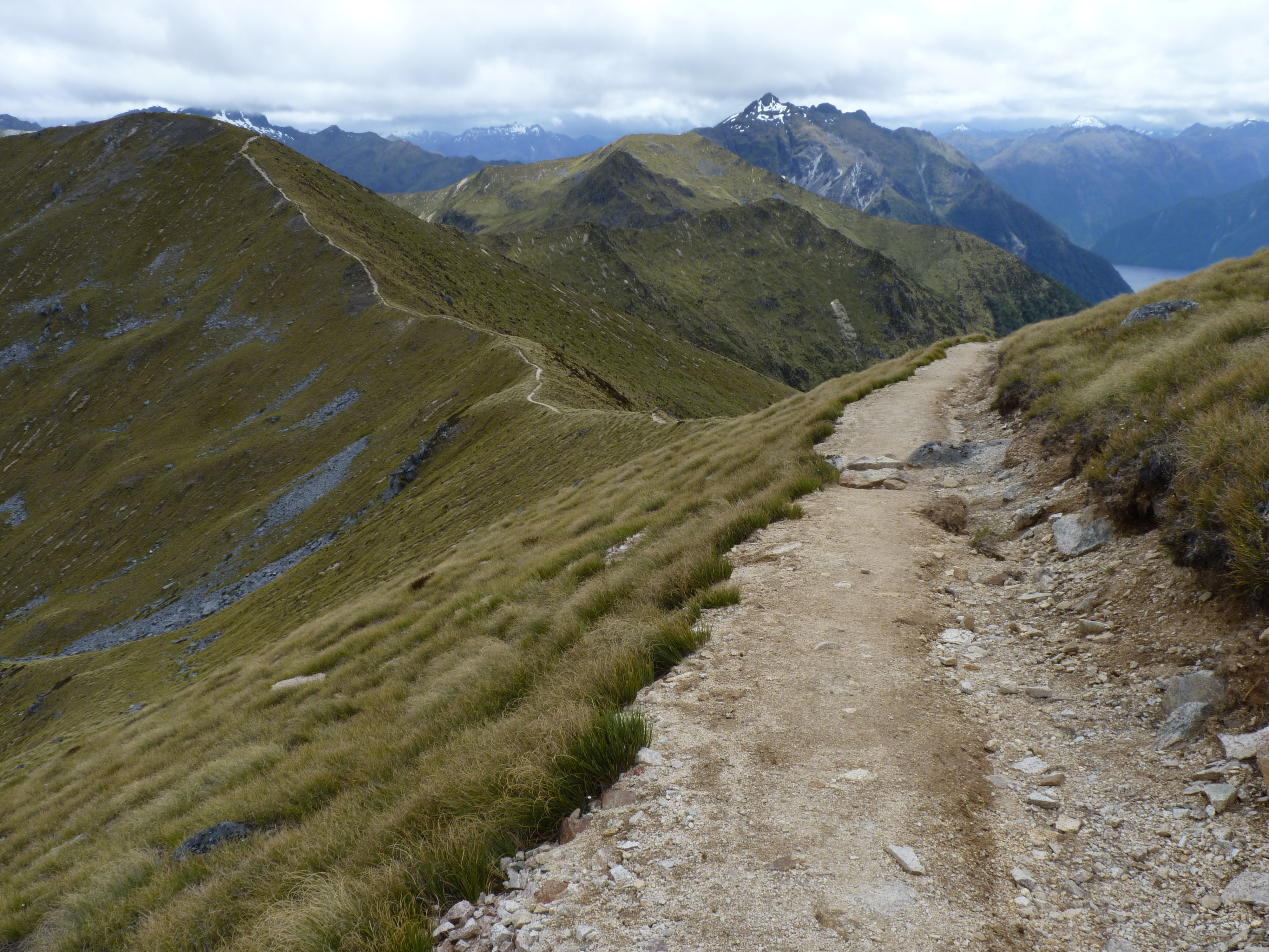 Kepler Track, South Island, New Zealand